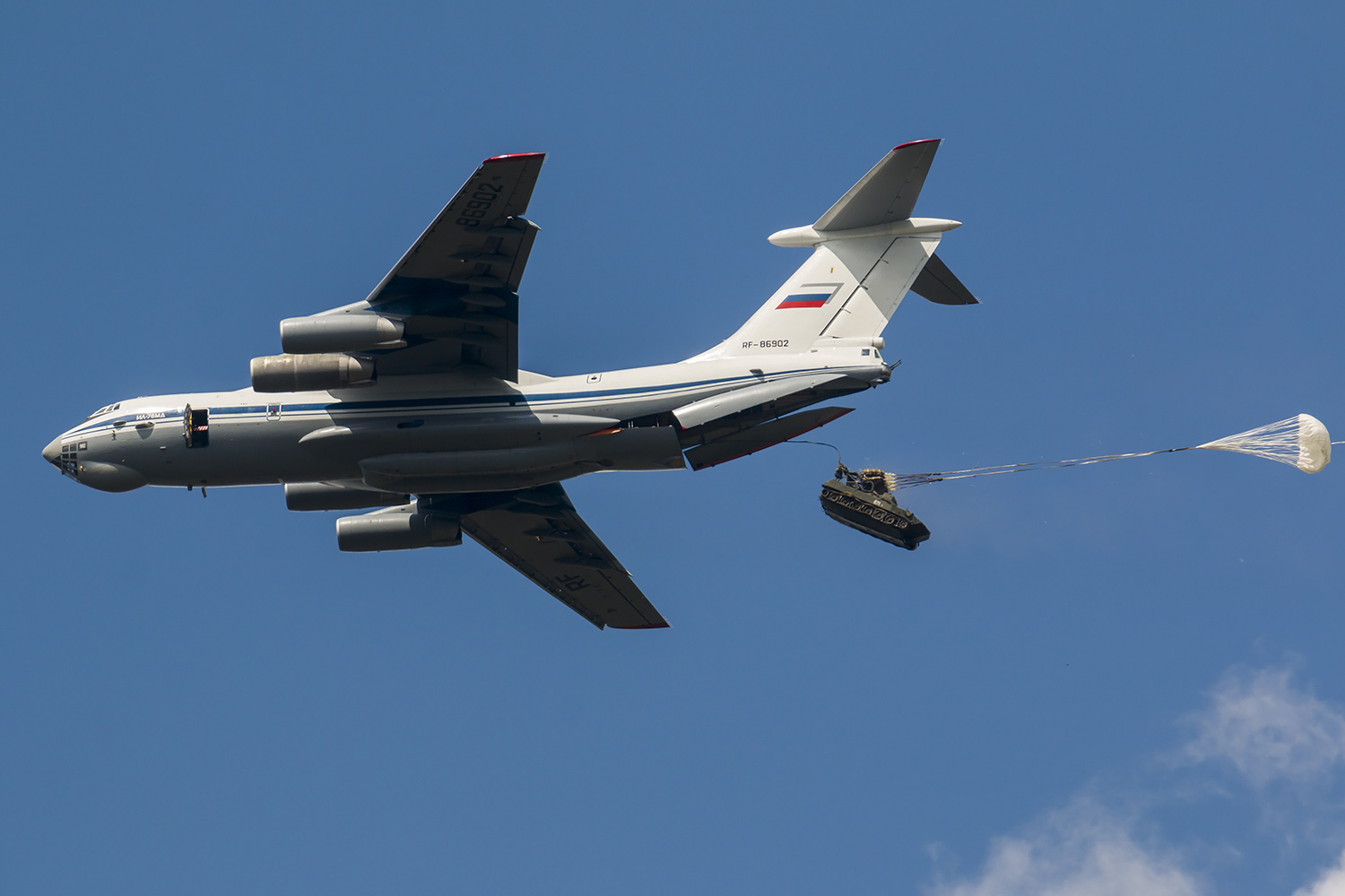 Ilyushin IL-76MD RF-86902